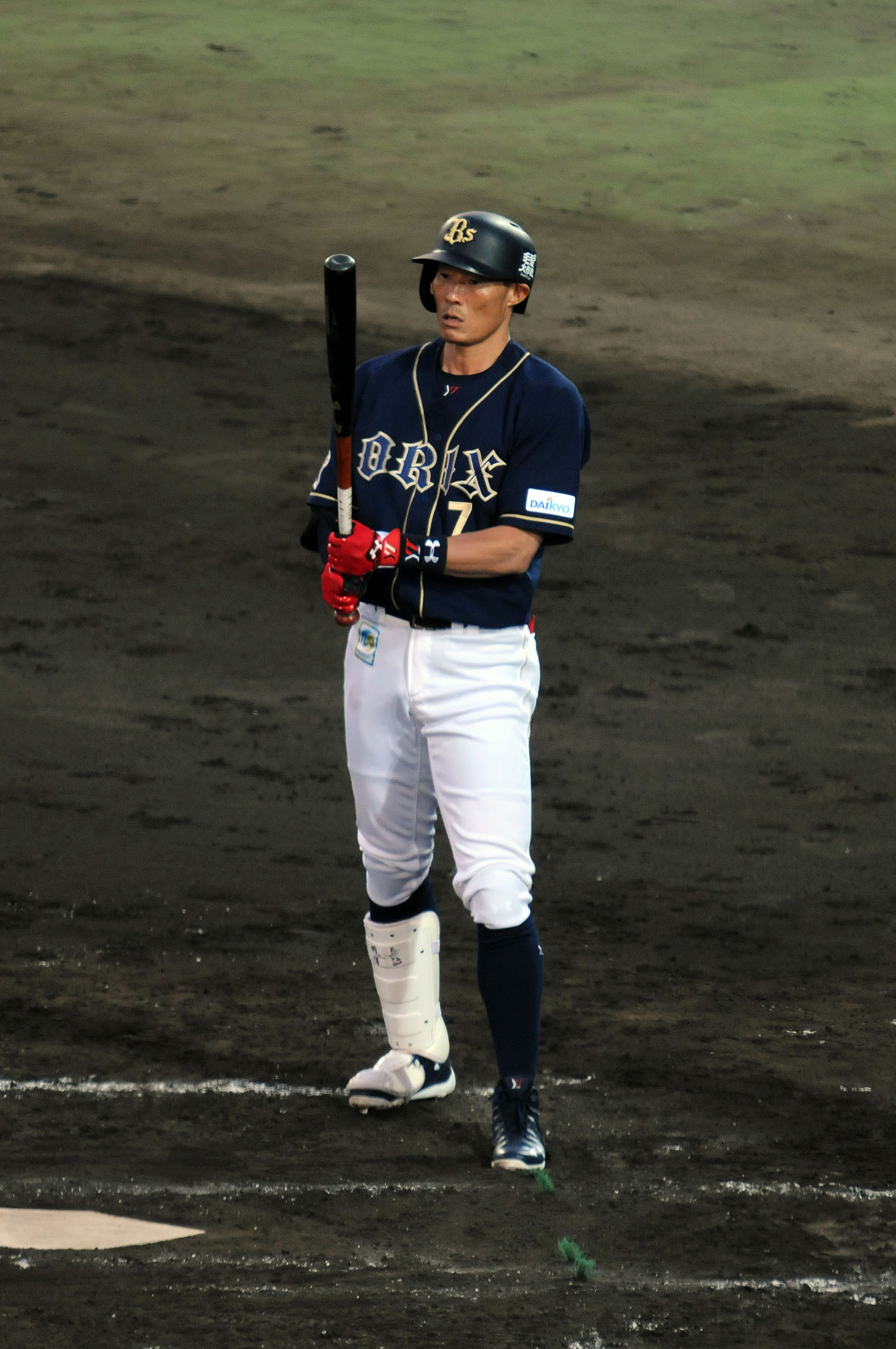 Yoshio Itoi, outfielder of the Orix Buffaloes, at Akita Prefectural Baseball Stadium.